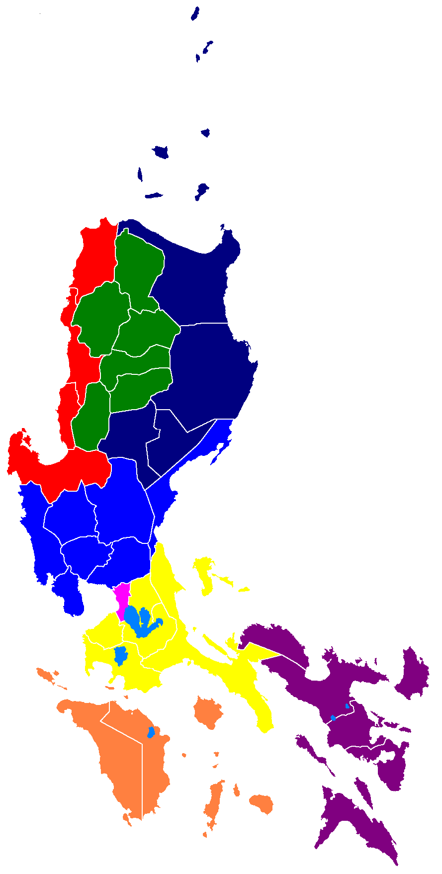 A map of Luzon color-coded by regions. Bicol Cagayan Valley CALABARZON Central Luzon Cordillera Ilocos Metro Manila MIMAROPA